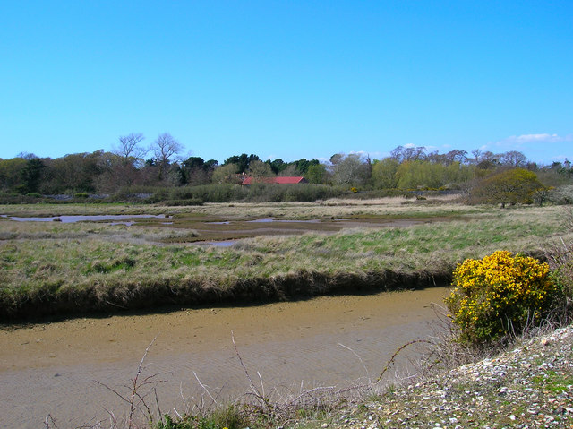 Norton Priory Looking across a bird reserve from the beach at Pagaham Harbour. The priory was until 1903 the rectory for the nearby church.